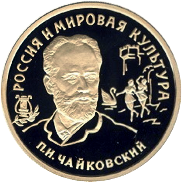 Commemorative coin - Pyotr Ilyich Tchaikovsky